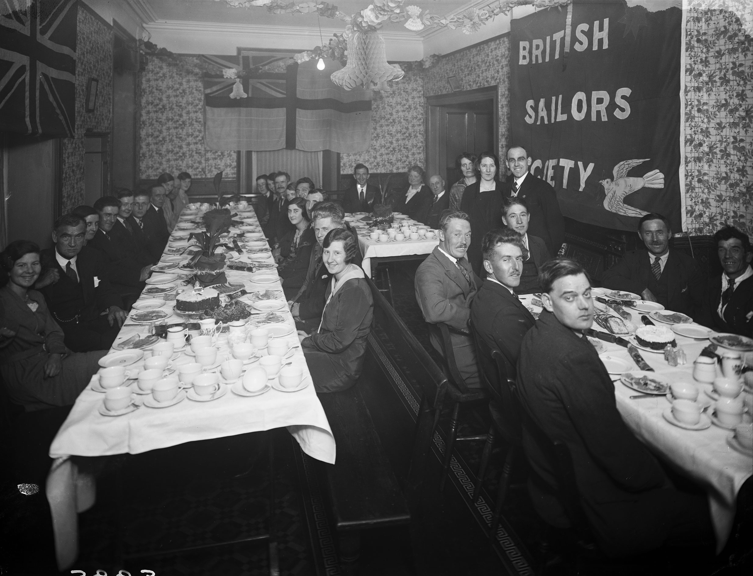 Lovely shot of Christmas festivities at Waterford's Sailors' Rest. Particularly like the British Sailors' Society banner adorned by a dove with a twig in its mouth (as in the Noah's Ark story). And wondering if the Christmas cracker|Christmas crackers (noisemakers) on the tables were Tom Smith's brand... We still don't have a location for this Sailors' Rest that we first featured back on 17 July, but we do know this photo was ordered by a Mr Craig. Date: 29 December 1931 NLI Ref.: P_WP_3883